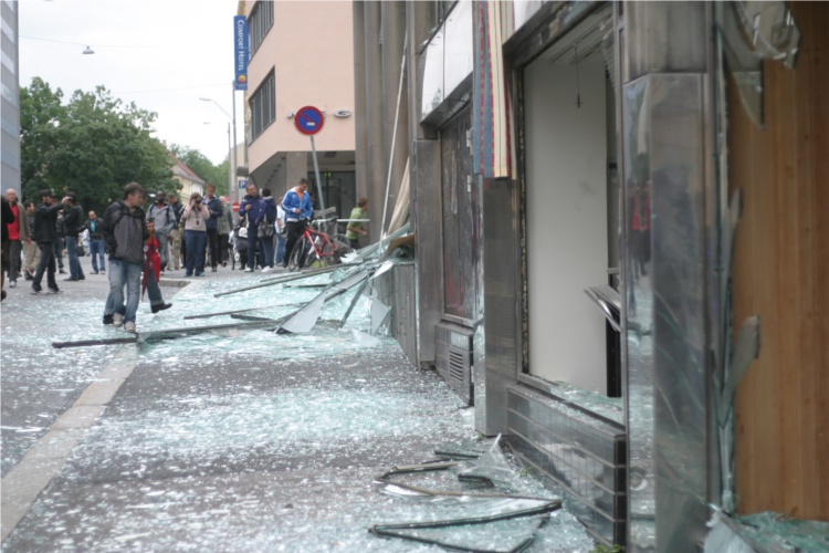 Damages done to Oslo Kongressenter and nearby buildings by the bomb attack.